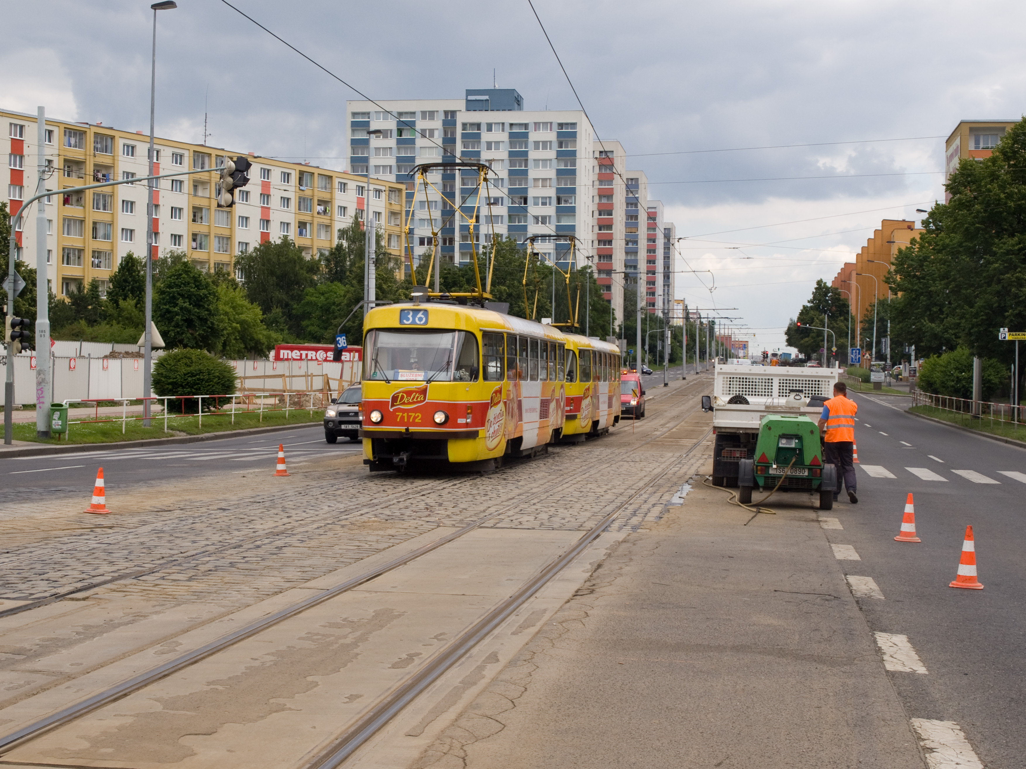 Tram loop Červený vrch, Prague 6